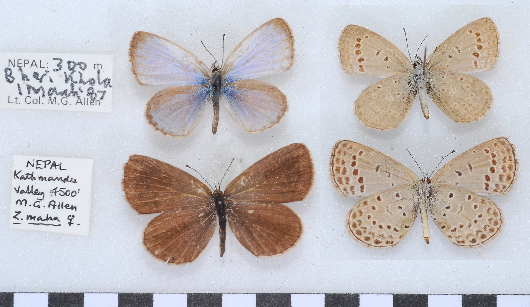 Pseudozizeeria maha, male, female, set specimens, Nepal, Alan Cassidy photo.